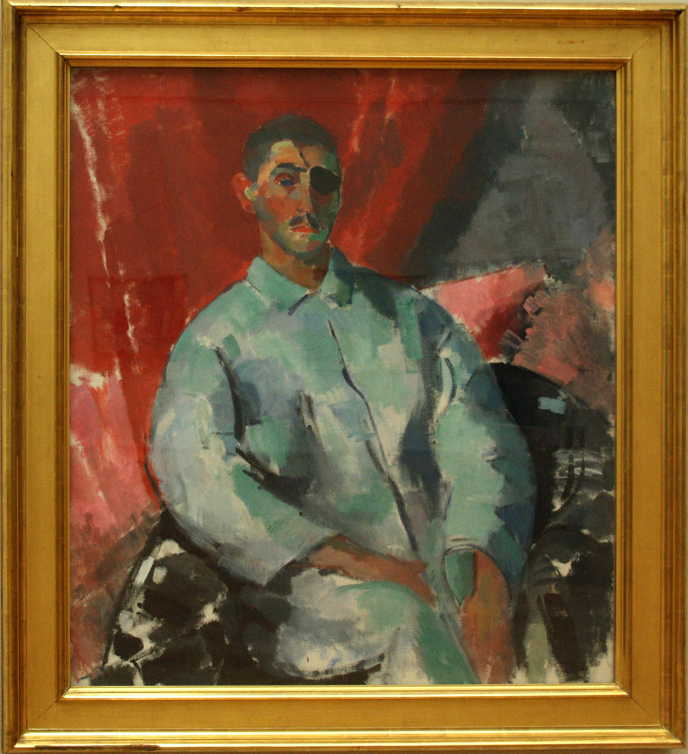 Painting of Rik Wouters in the Koninklijk Museum voor Schone Kunsten (Antwerpen)